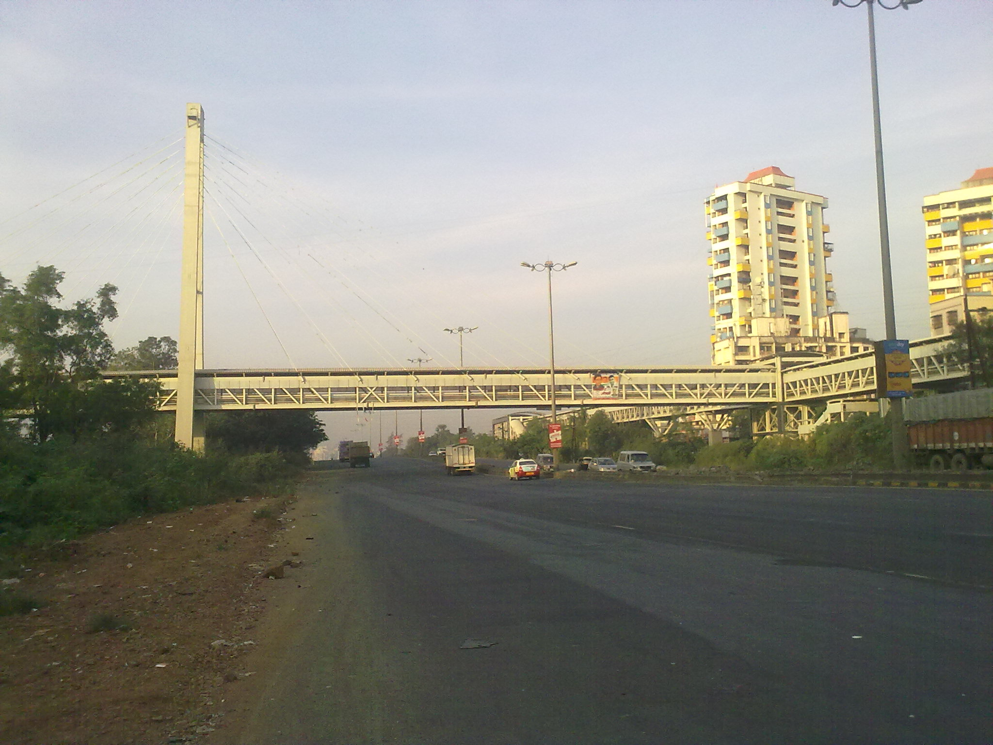 Kharghar Skywalk